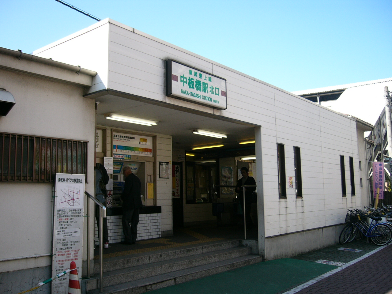 The north entrance of Naka-Itabashi Station on the Tobu Tojo Line in Tokyo, Japan